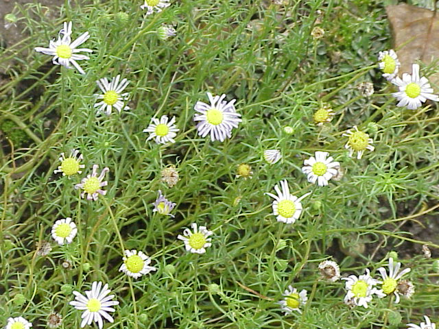 Species: Felicia bergeriana Family: Asteraceae Image No. 2